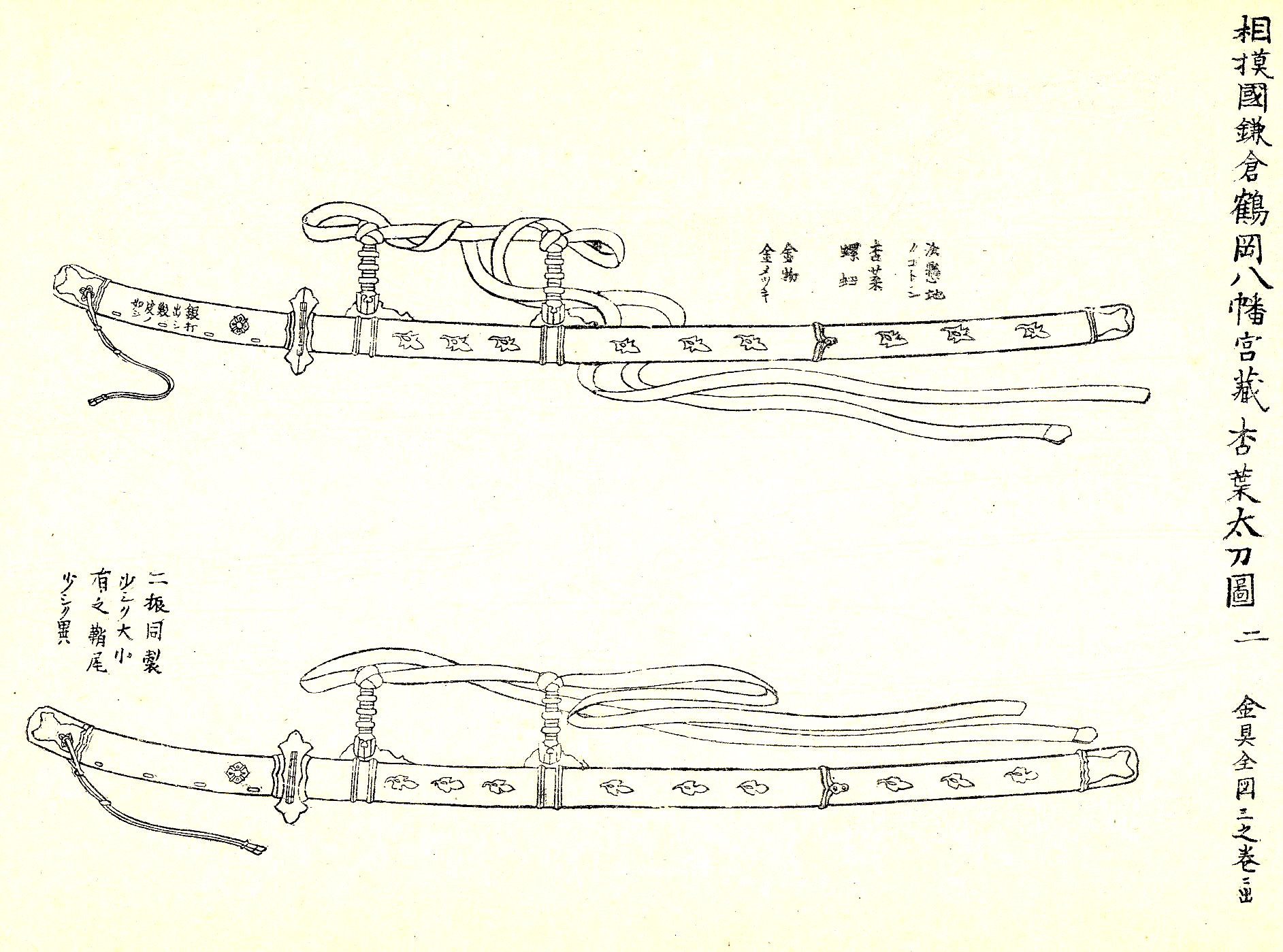 This is a old sword in Japan.This picture carry "Shuko-Jyusshu" that published in Edo period.